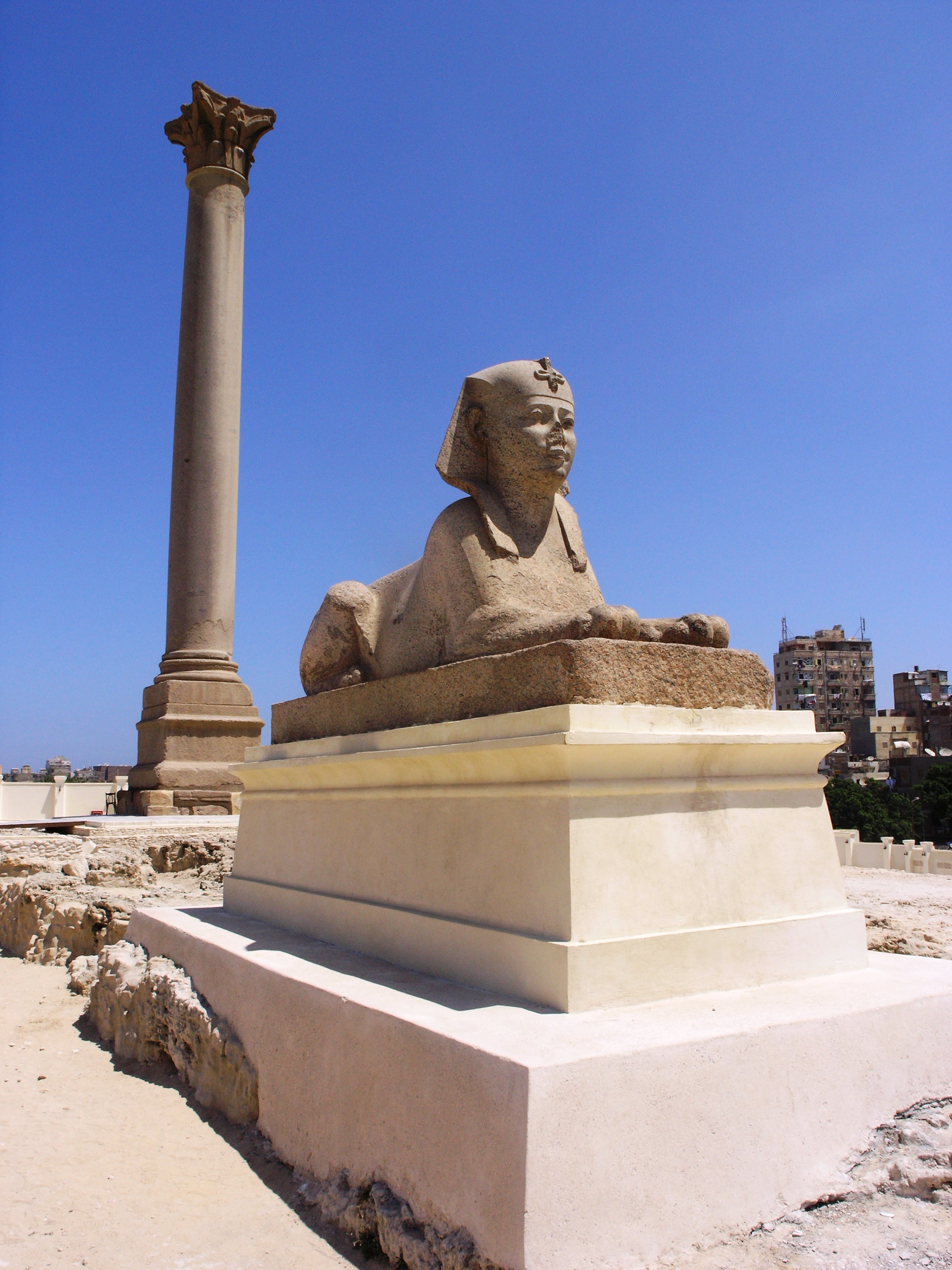 Sphinxes of Horemheb - Pompey's Pillar of Diocletianus - Alexandria. sphinxes of Horemheb